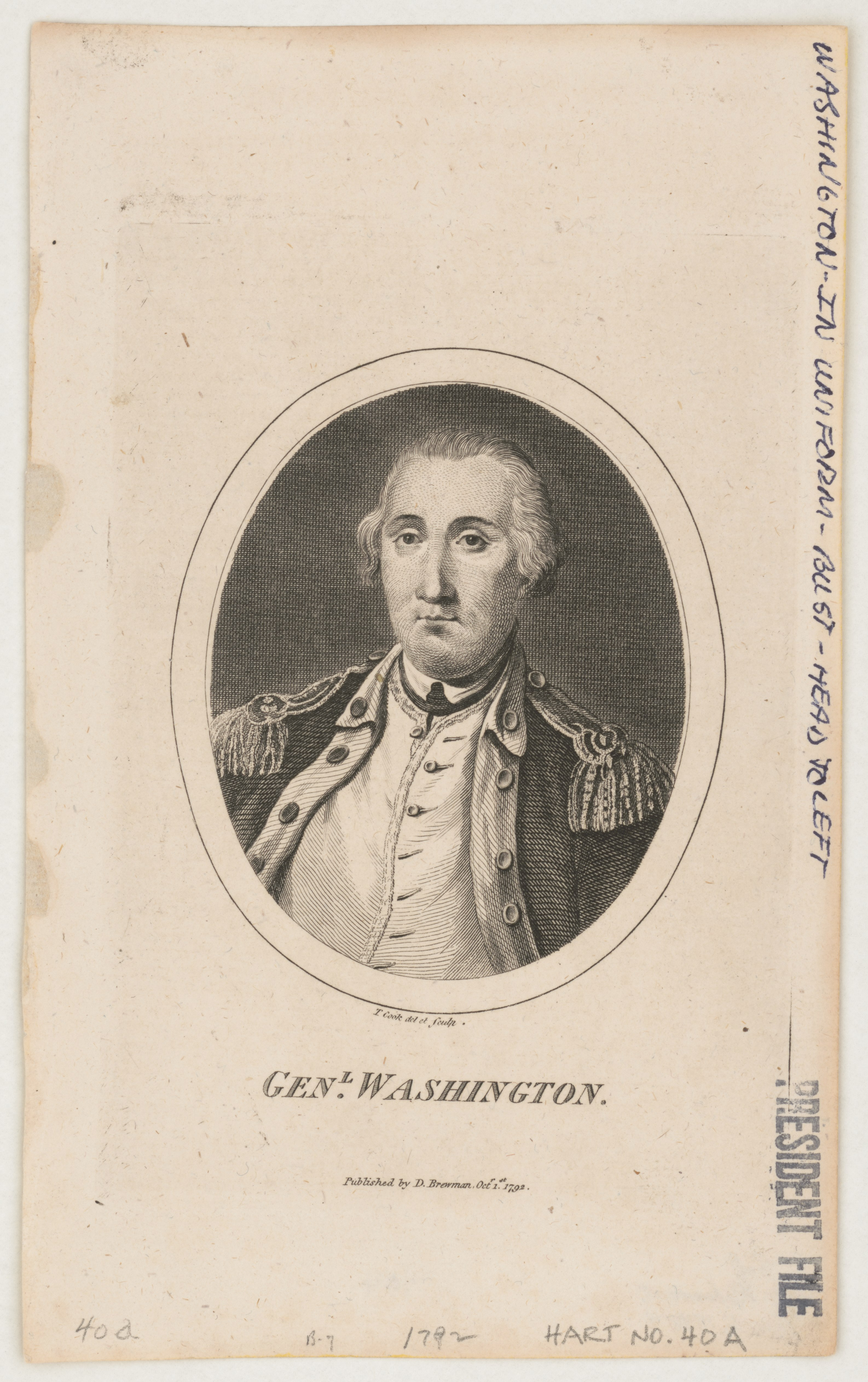 Title: Genl. Washington Physical description: 1 print. Notes: (Hart 40A).; This record contains unverified data from PGA shelflist card.; Associated name on shelflist card: Cook, Thomas.